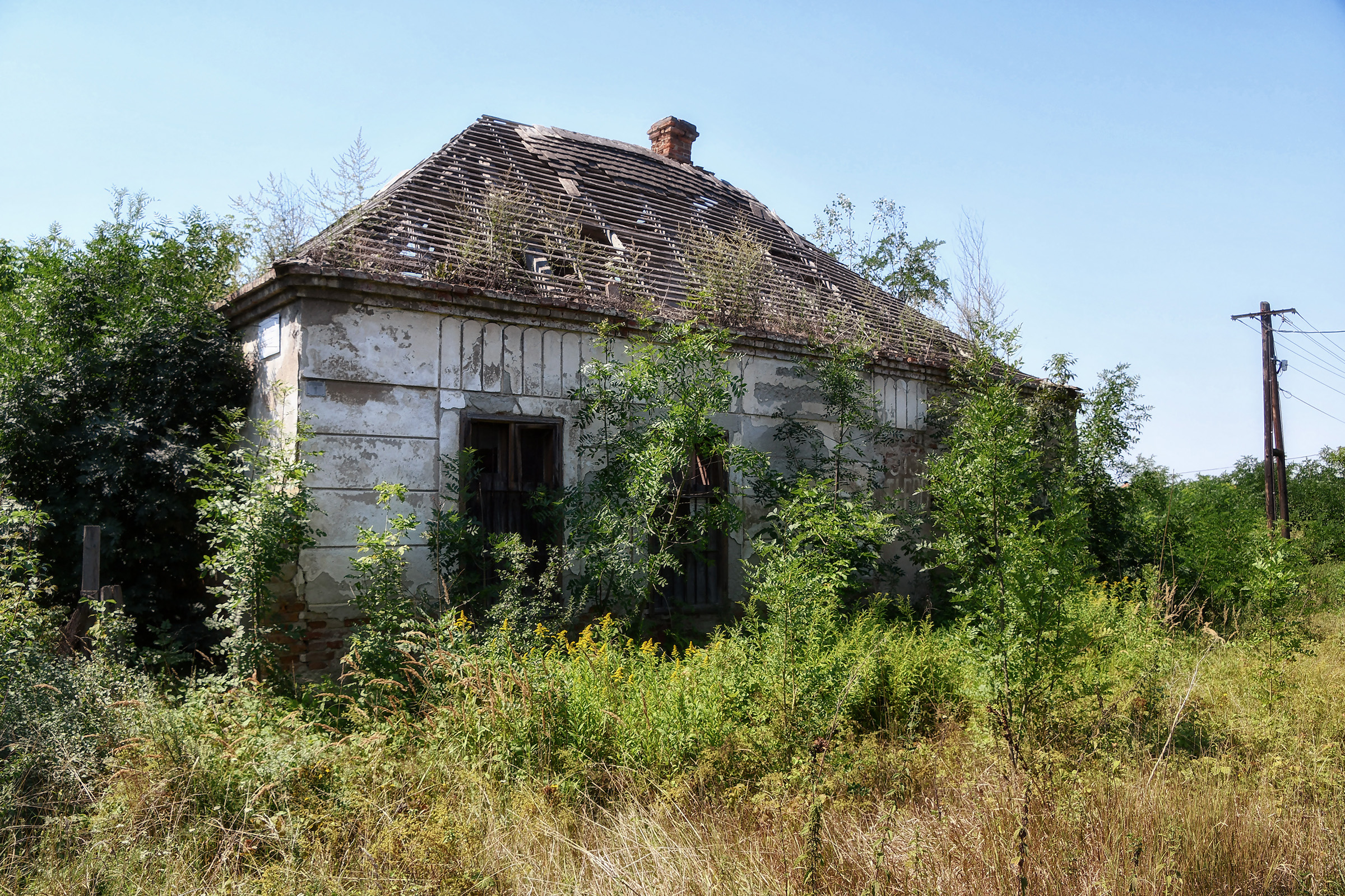 The former, derelict toll house of the bridge at Rábca by Abda